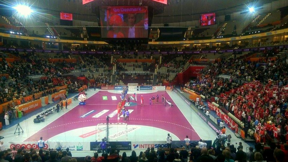 2015 World Men's Handball Championship, Denmark vs Russia, Lusail Sports Arena, Qatar.